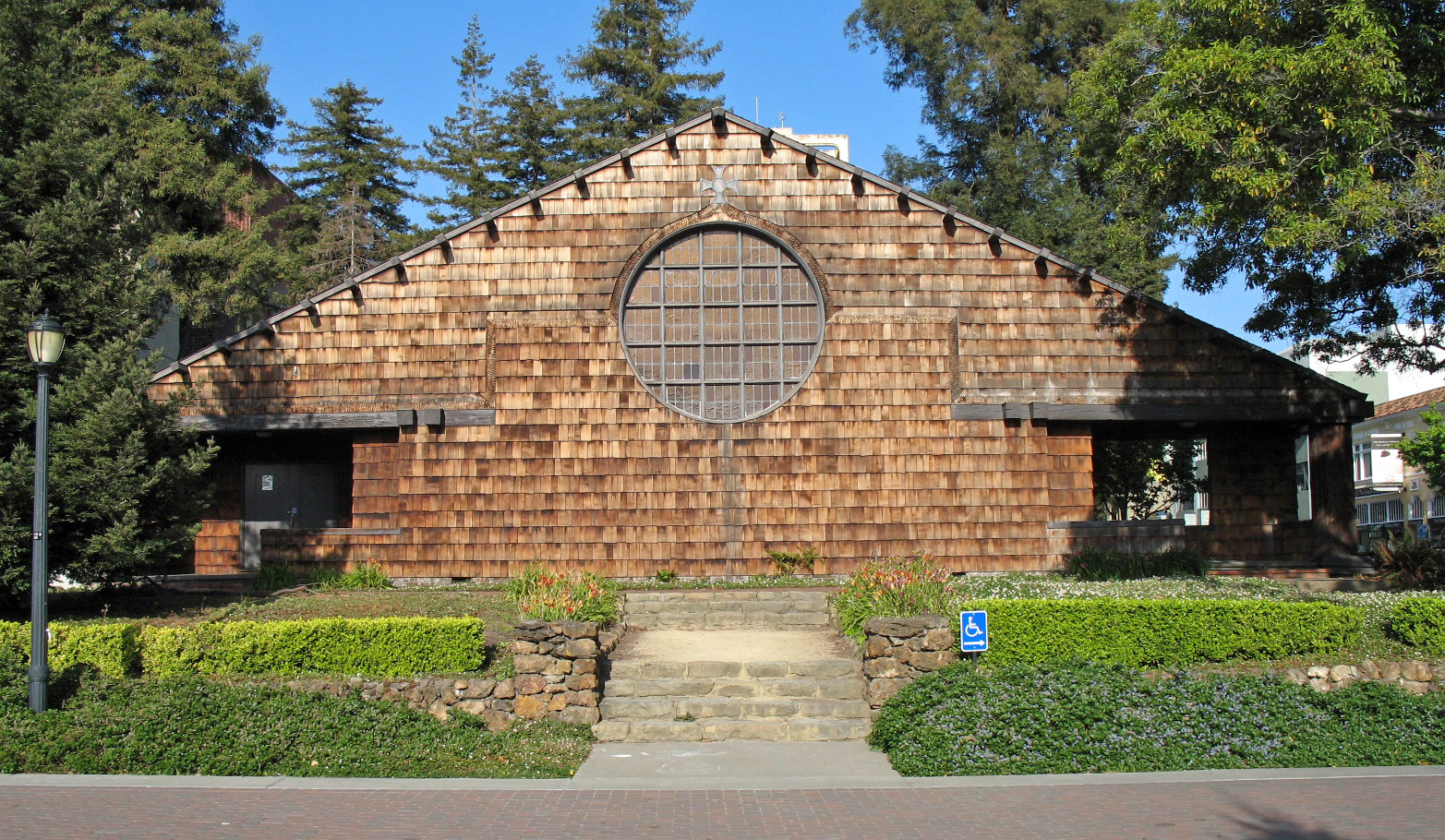 National Register of Historic Places listings in Alameda County, California. First Unitarian Church, 2401 Bancroft Way, Berkeley, CA. Photographed 2009-04-26 from the west side of Dana St. near the intersection with Bancroft Way. Now a University of California Dramatic Arts Department dance studio.